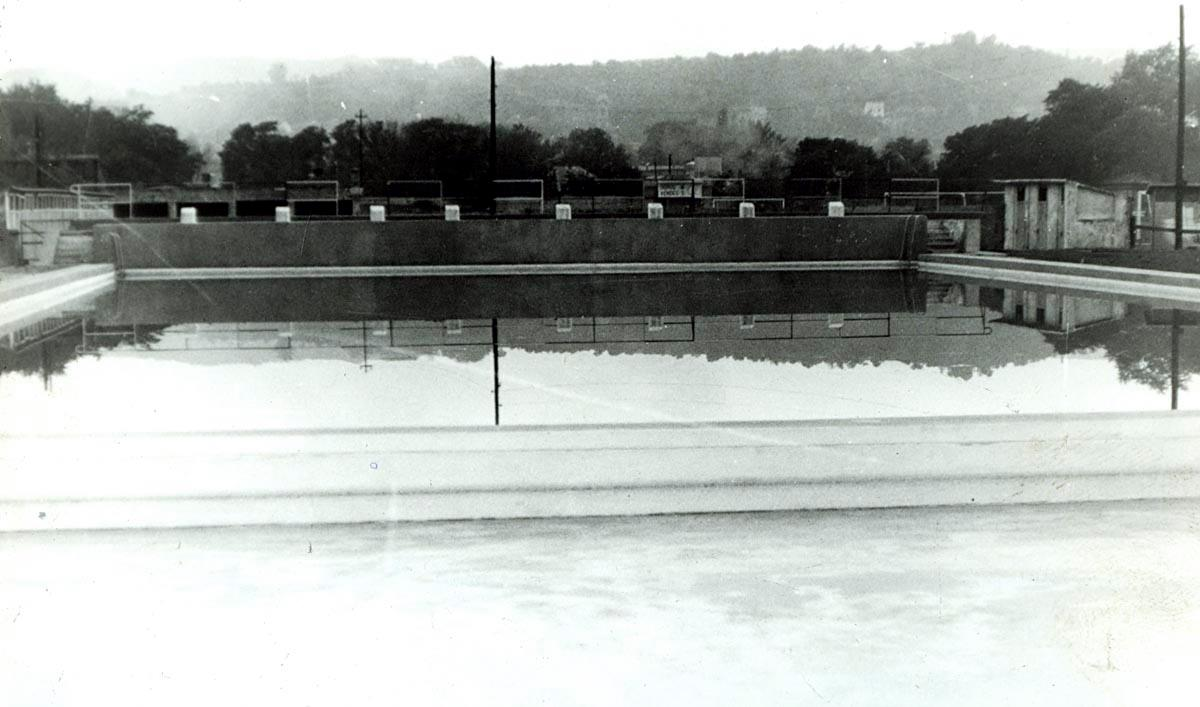 It made from behind the North curve of stadium